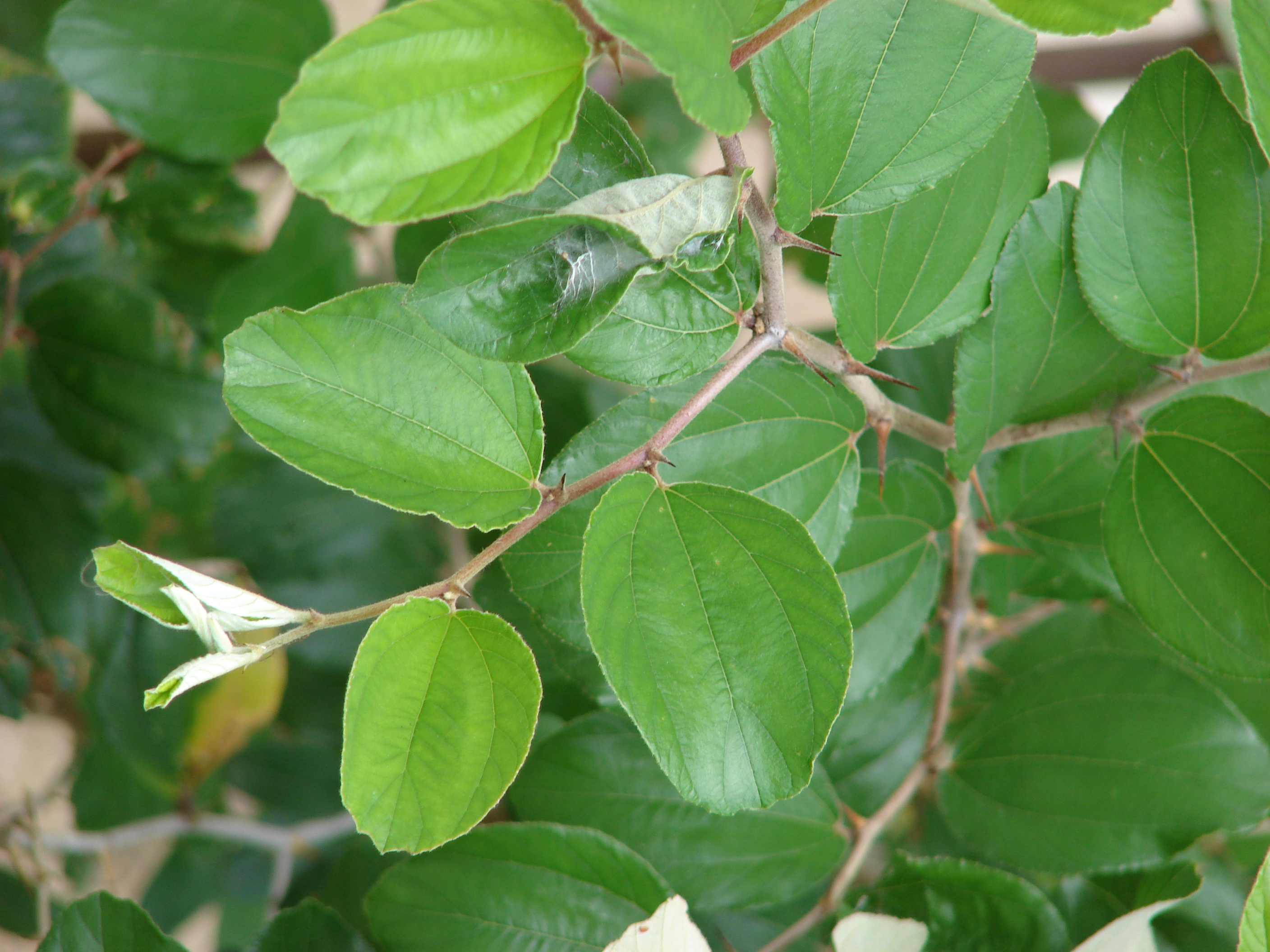 Ziziphus mauritiana (leaves and thorns). Location: Midway Atoll, PWA Shop Sand Island